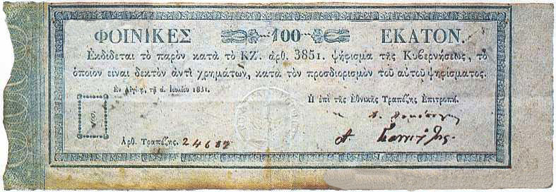 100 Phoenix banknote, 1831, Greece